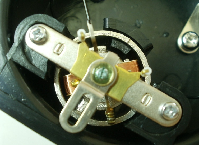 Analog Meter with core magnet